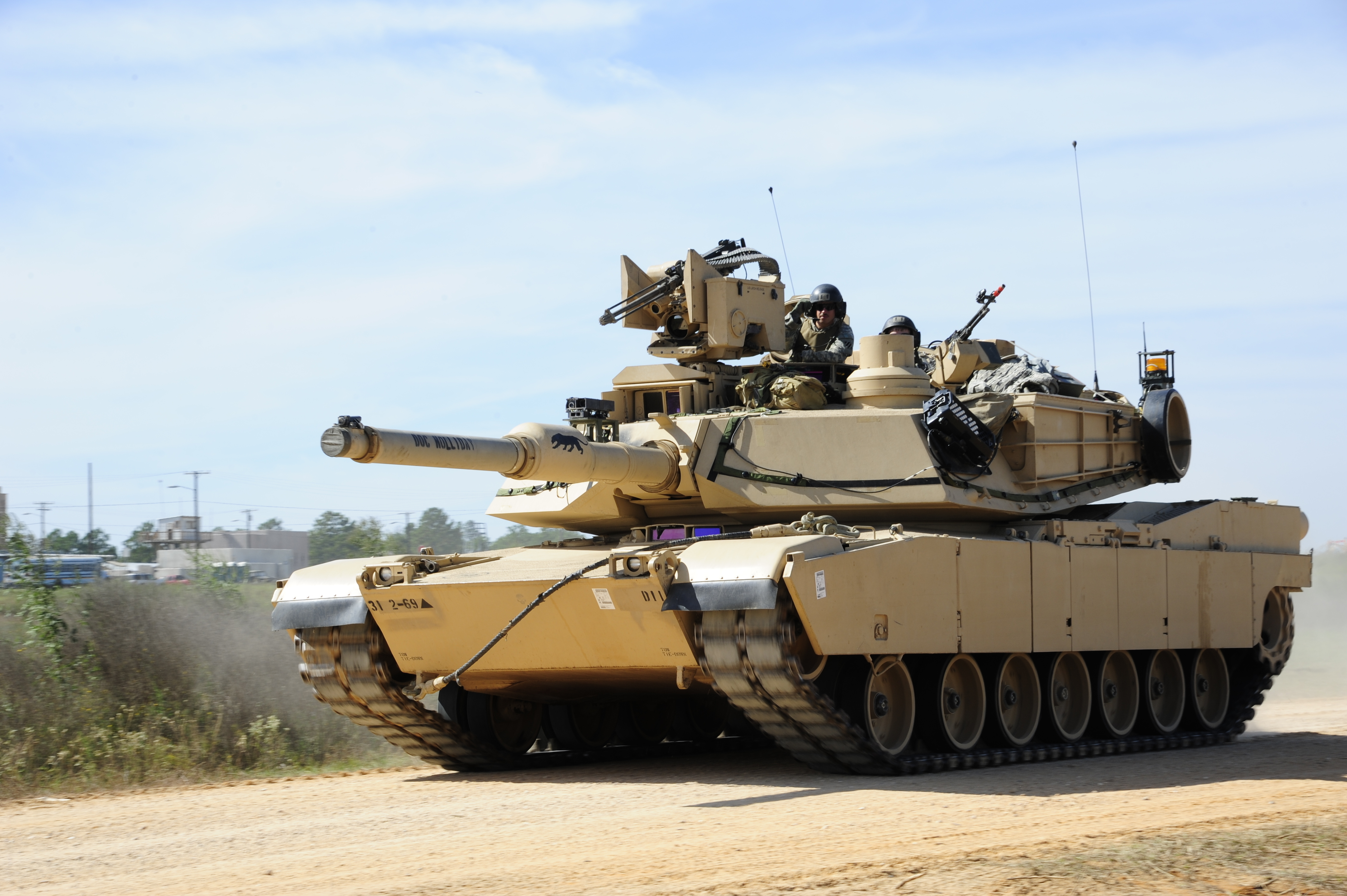 An M1A2 Abrams main battle tank performs tactical maneuvers near Geronimo Landing Zone during Joint Readiness Training Center - Decisive Action, Oct. 15, 2012. The exercise includes emphasis on joint forcible entry, phased deployment with an airborne parachute operation, a combined noncombatant evacuation, combine arms maneuver, wide area security, unconventional warfare and unified land operations in a joint, interagency, intergovernmental and multinational environment.